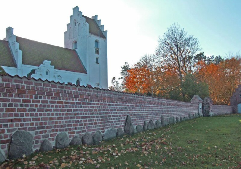 Church of Kvissel (Kvissel Kirke) danish church situated in the northern part of Jutland. Photo taken by Jørgen Larsen, 2005-10-28.